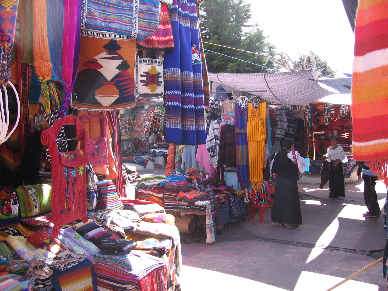 The Saturday market in Otavalo, Ecuador, showing the colourful fabrics. July 2006.